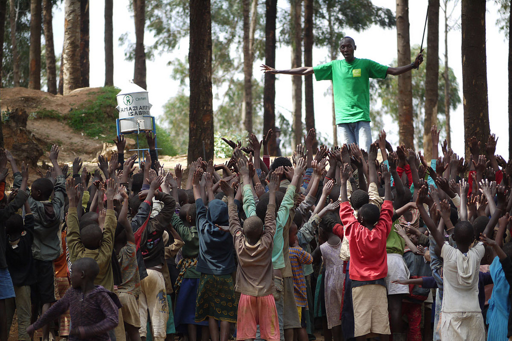 Run by community mobilisers, the hygiene club sessions involve lots of fun and games to teach the children important public health messages. The focus of this session is on handwashing as the team prepares for Global Handwashing Day on 15 October. Photo: Laura Eldon/Oxfam